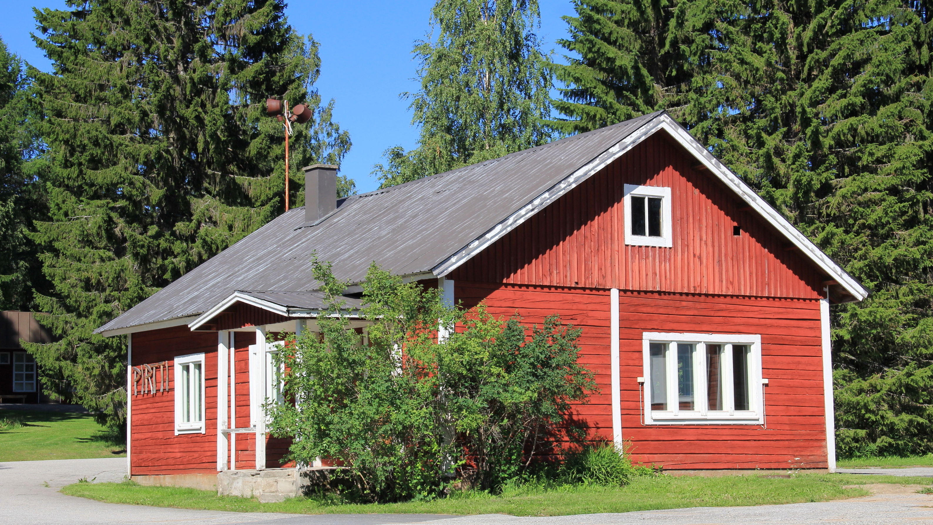 Paltamon Opisto building Pirtti, Mieslahti, Paltamo, Finland.